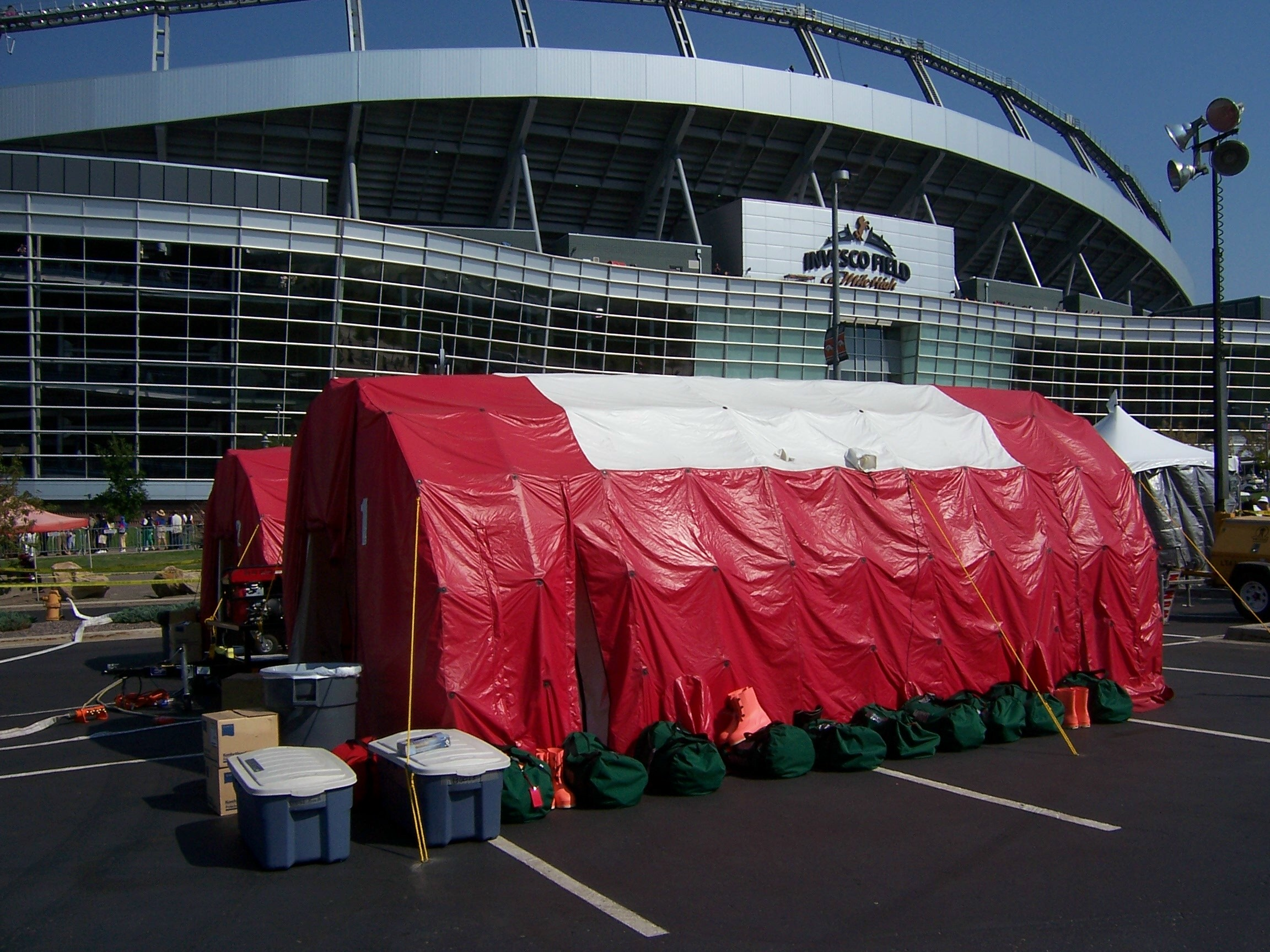 Decontamination Tent in front of INVESCO Field, where Obama formally accepted the Democratic Party's nomination.